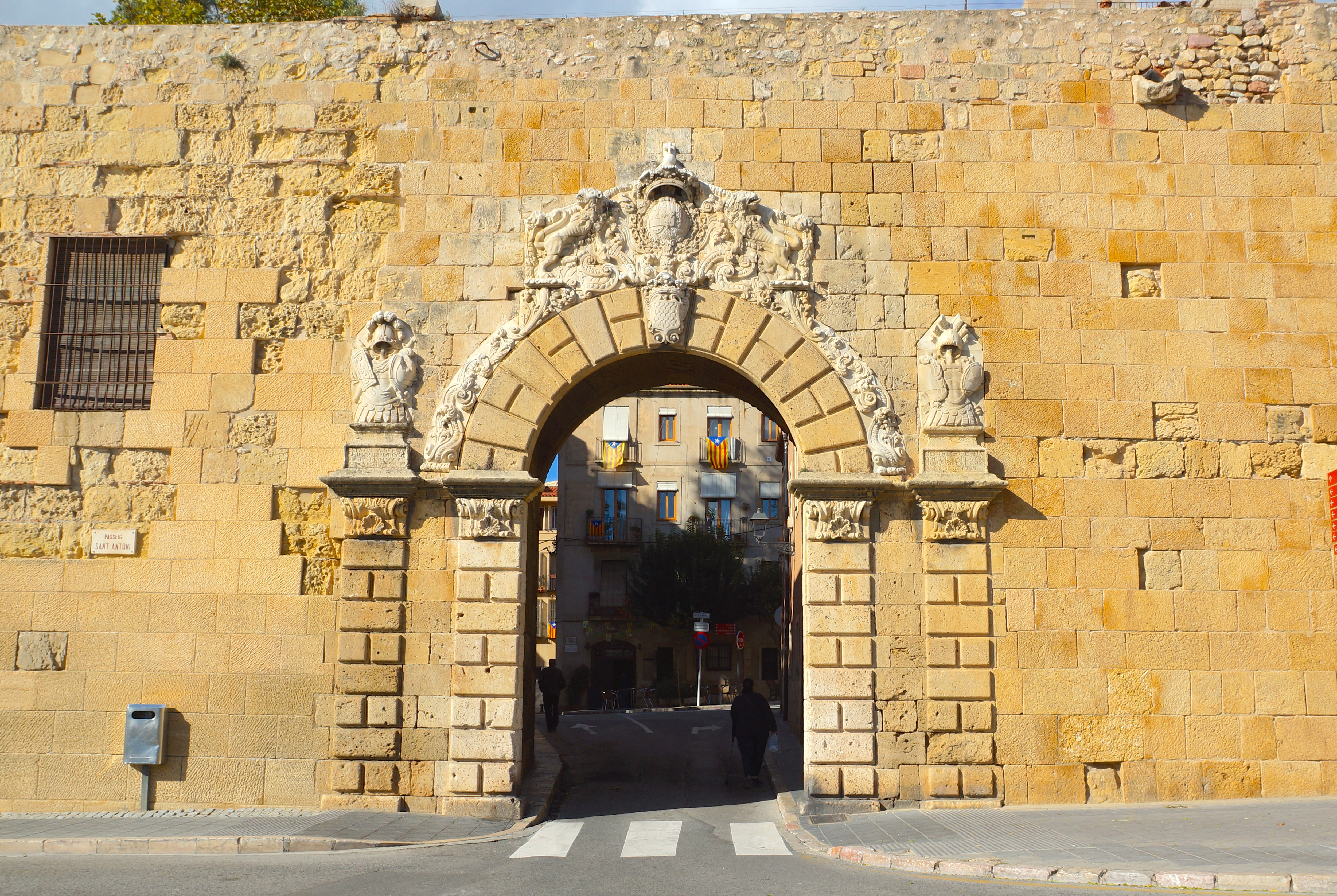 Tarragona, Catalonia: The Saint Anton's Gate: Portal de Sant Antoni (Tarragona)